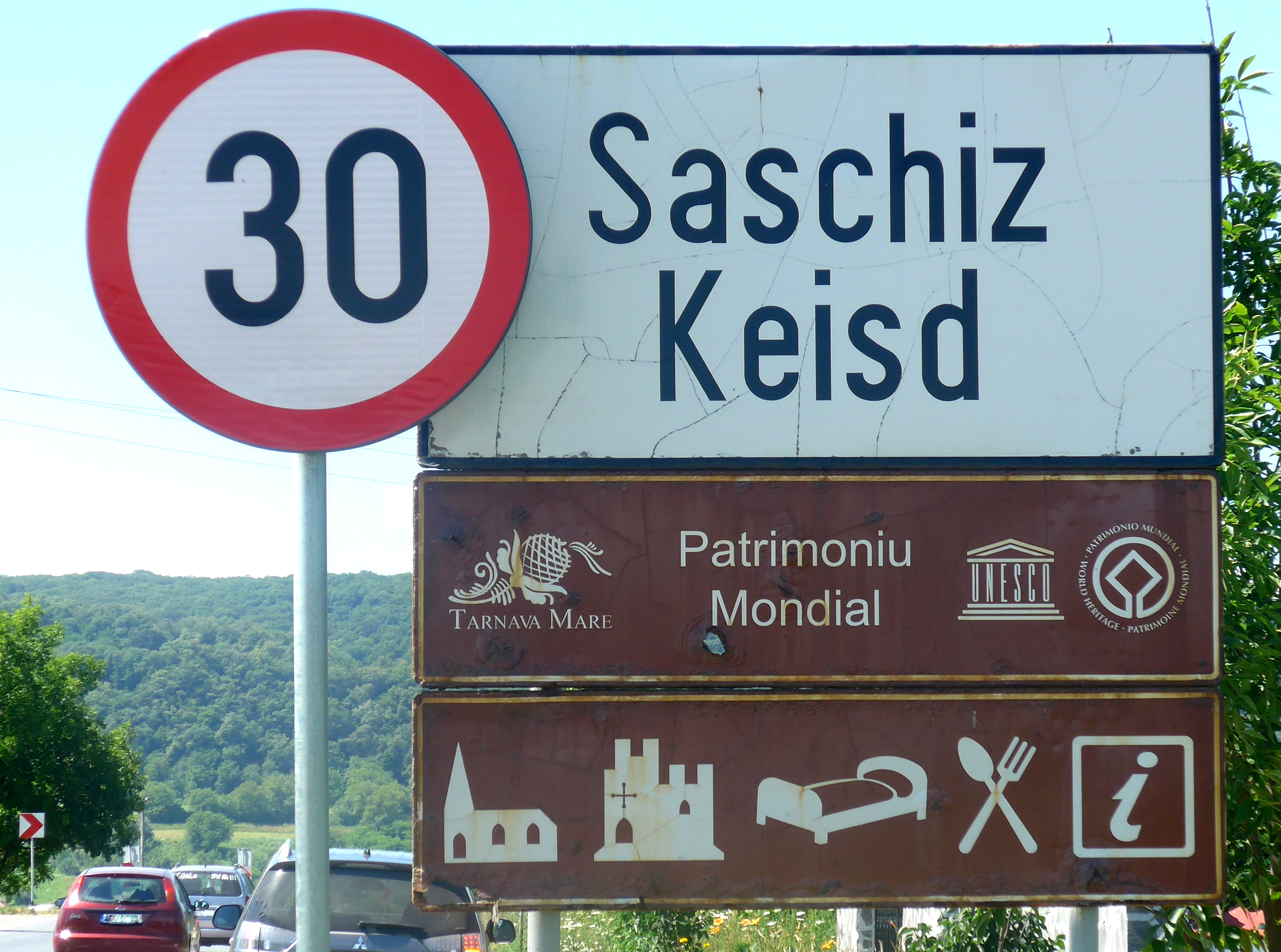 Official bilingual town sign of Saschiz/Keisd in Romania